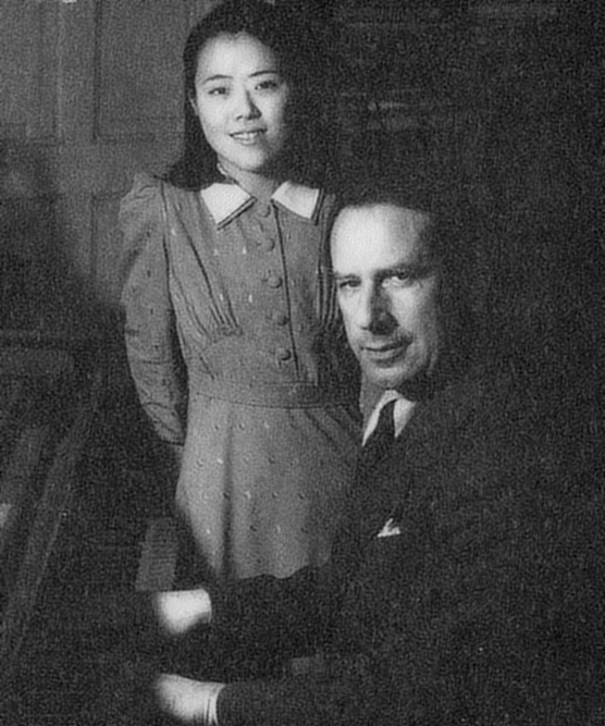 Haruko Fujita, Japanese pianist, and her teacher, Leo Sirota.